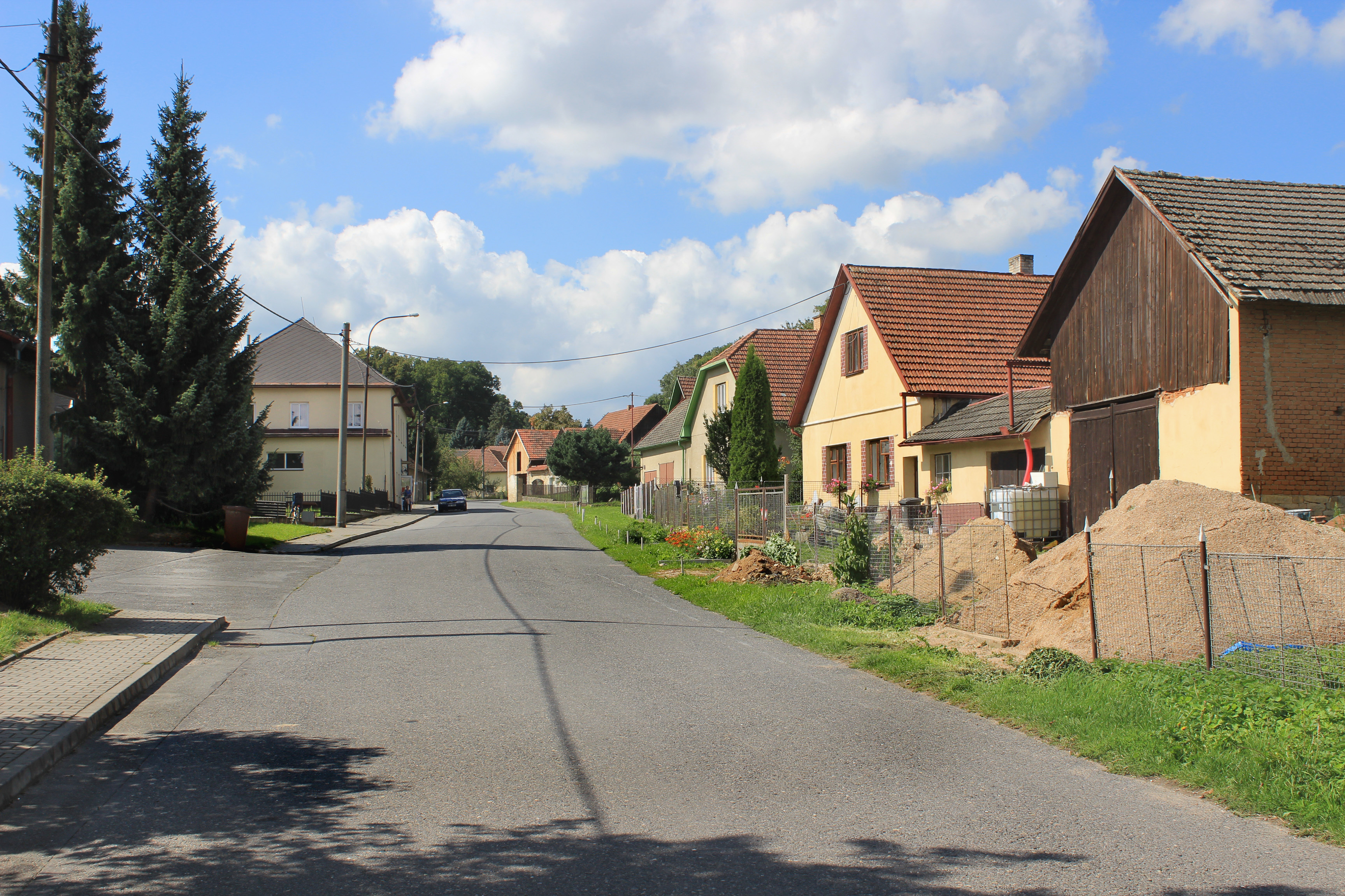 Main street in Vidlatá Seč, Czech Republic.